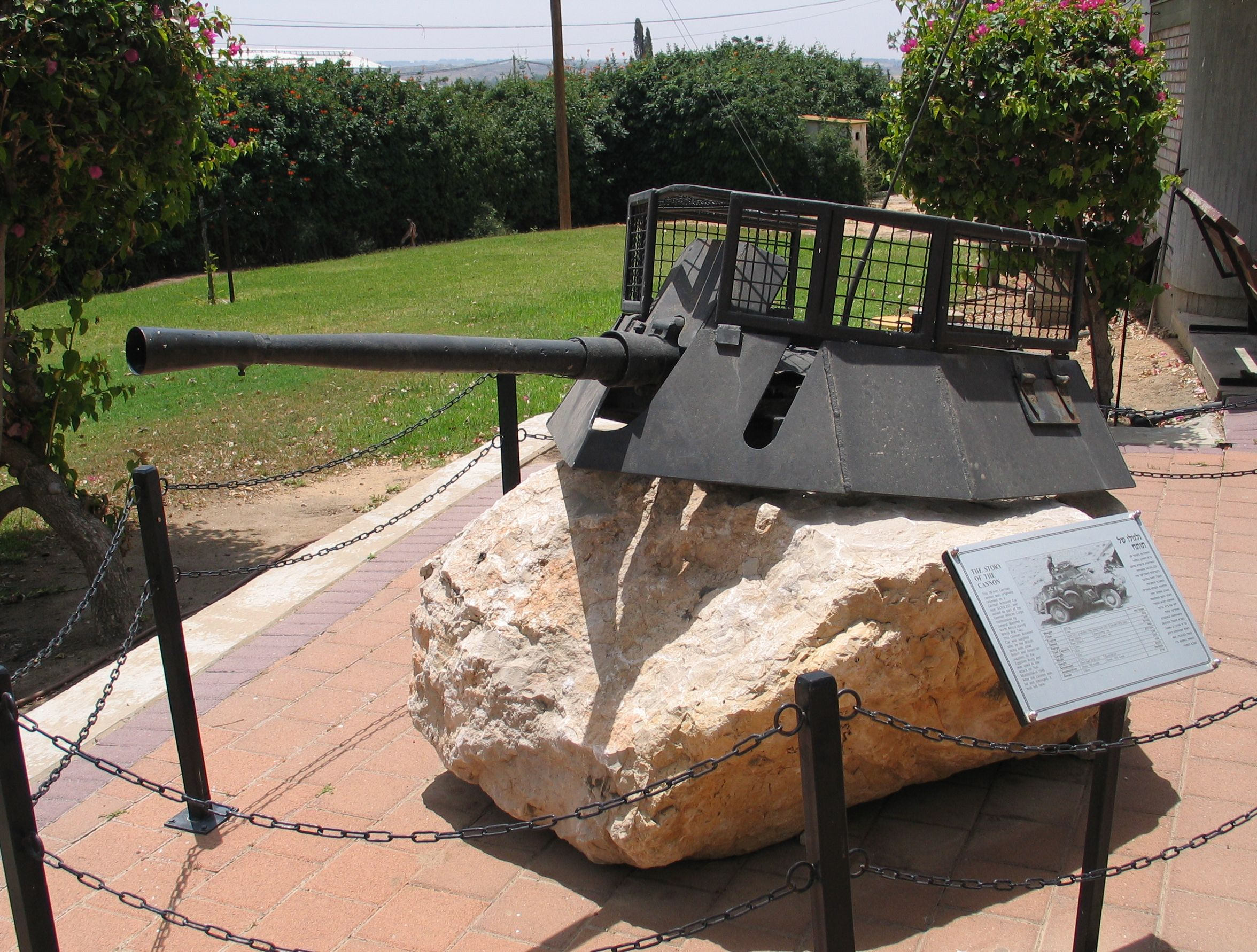 Turret of SdKfz 222, near Yad Mordechai battlefield reconstruction.